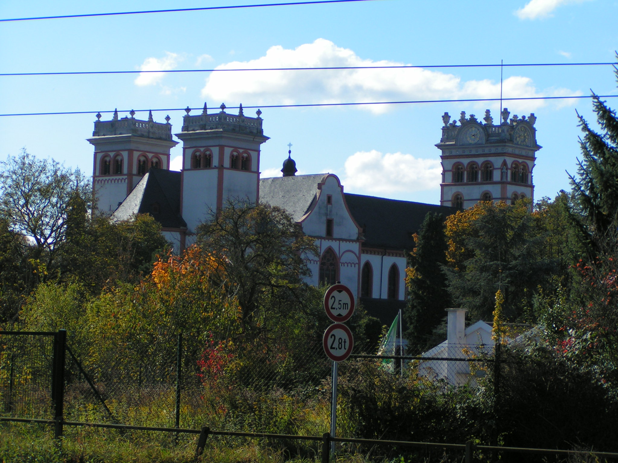 Benediktinerabtei St. Matthias, Trier, Germany